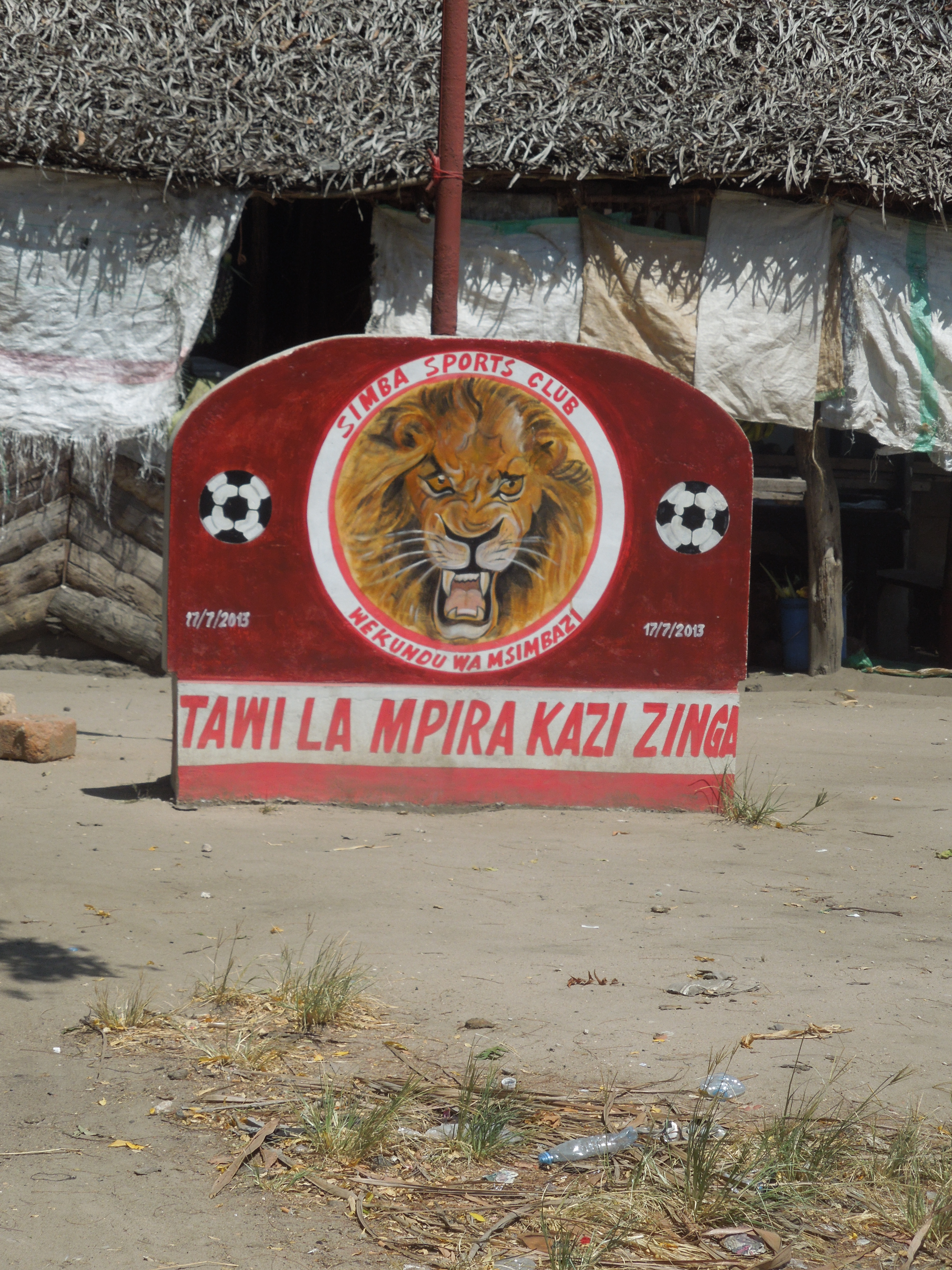 Simba Sports Club branch